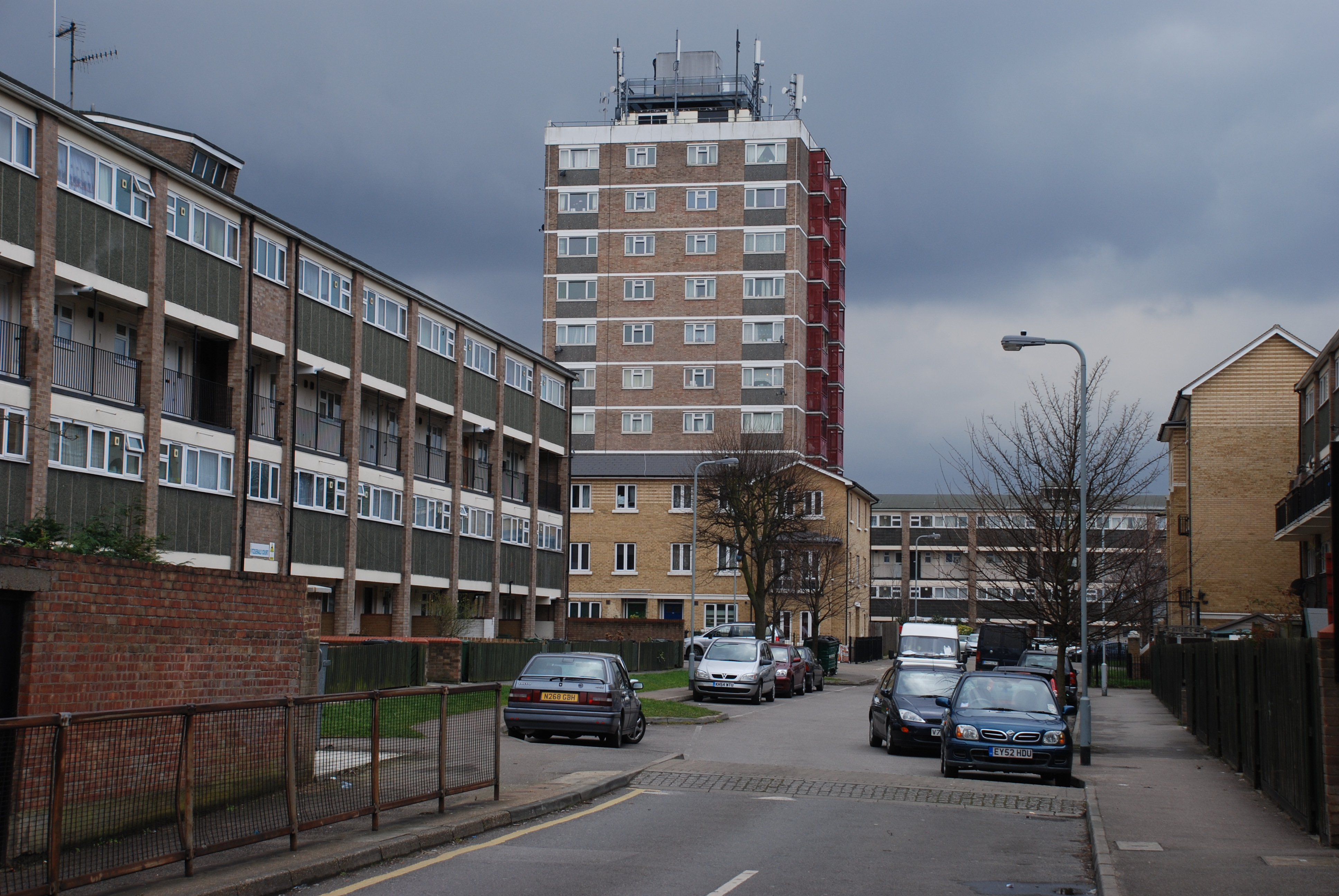 Slade Tower and Leyton Grange Estate, east London